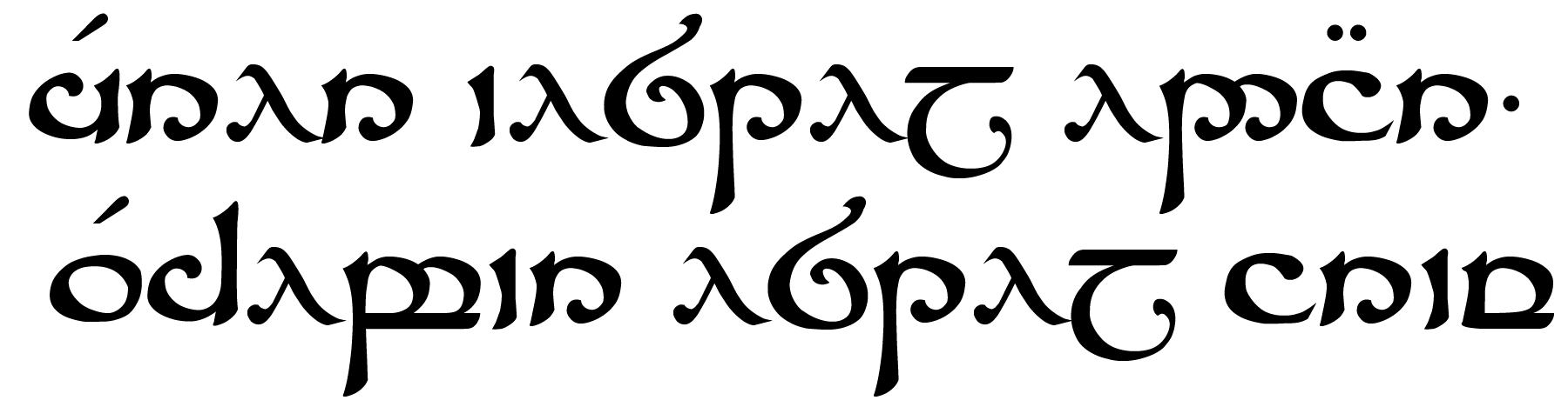 un esempio di tengwar in Sindarin/an example of tengwar in sindarin. the sentence is: "Ónen i-Estel Edain, ú-chebin estel anim"